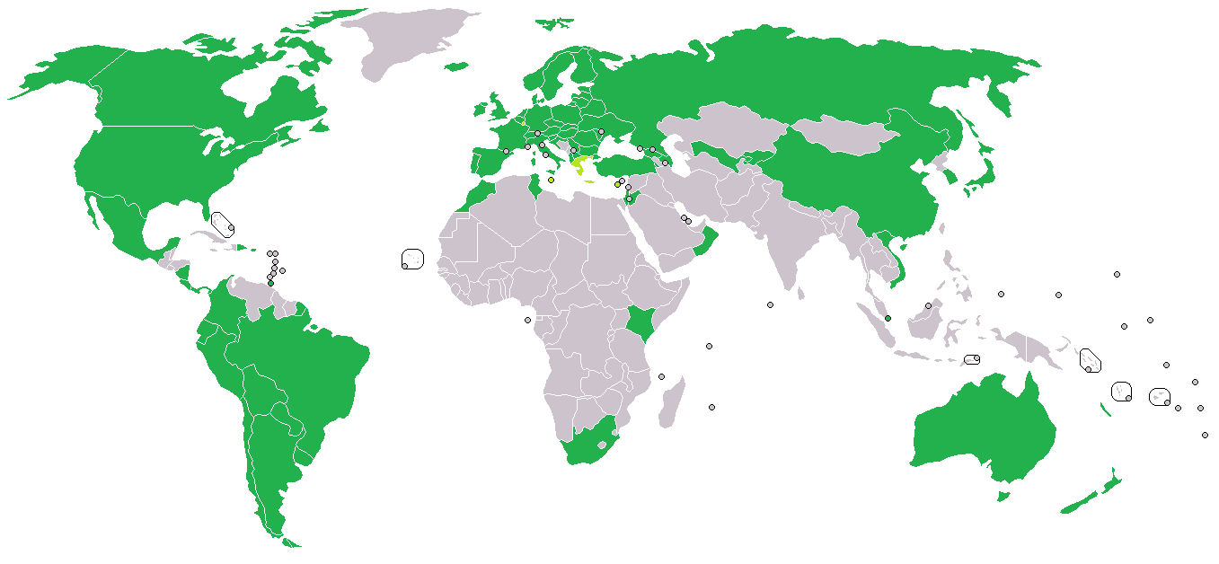 dark green - members; light green - covered by EU ratification